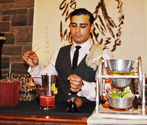 Bar tender making a classic cocktail in New England, CT. Courtesy of